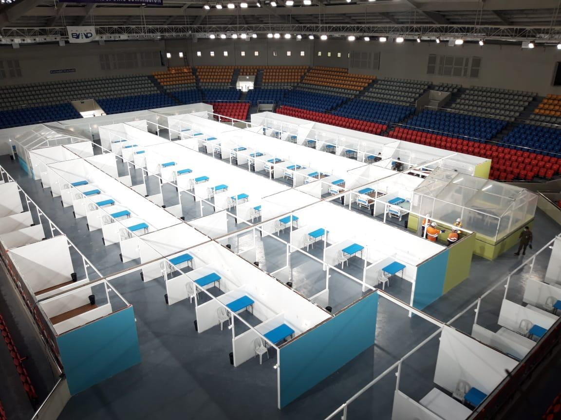 The Ninoy Aquino Stadium of the Rizal Memorial Sports Complex as a COVID-19 isolation facility.